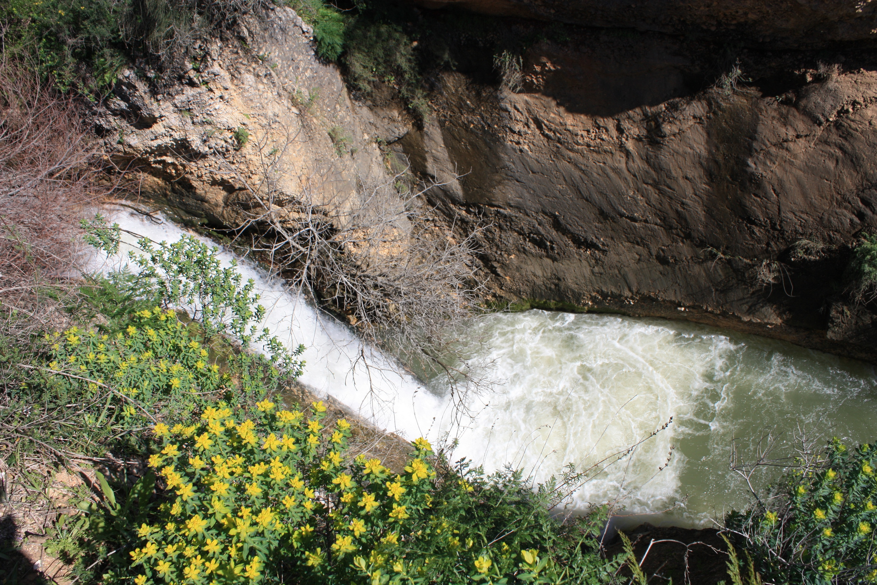 HaEshed fall in Ayun river, northern Israel (sorry for the poor quality)